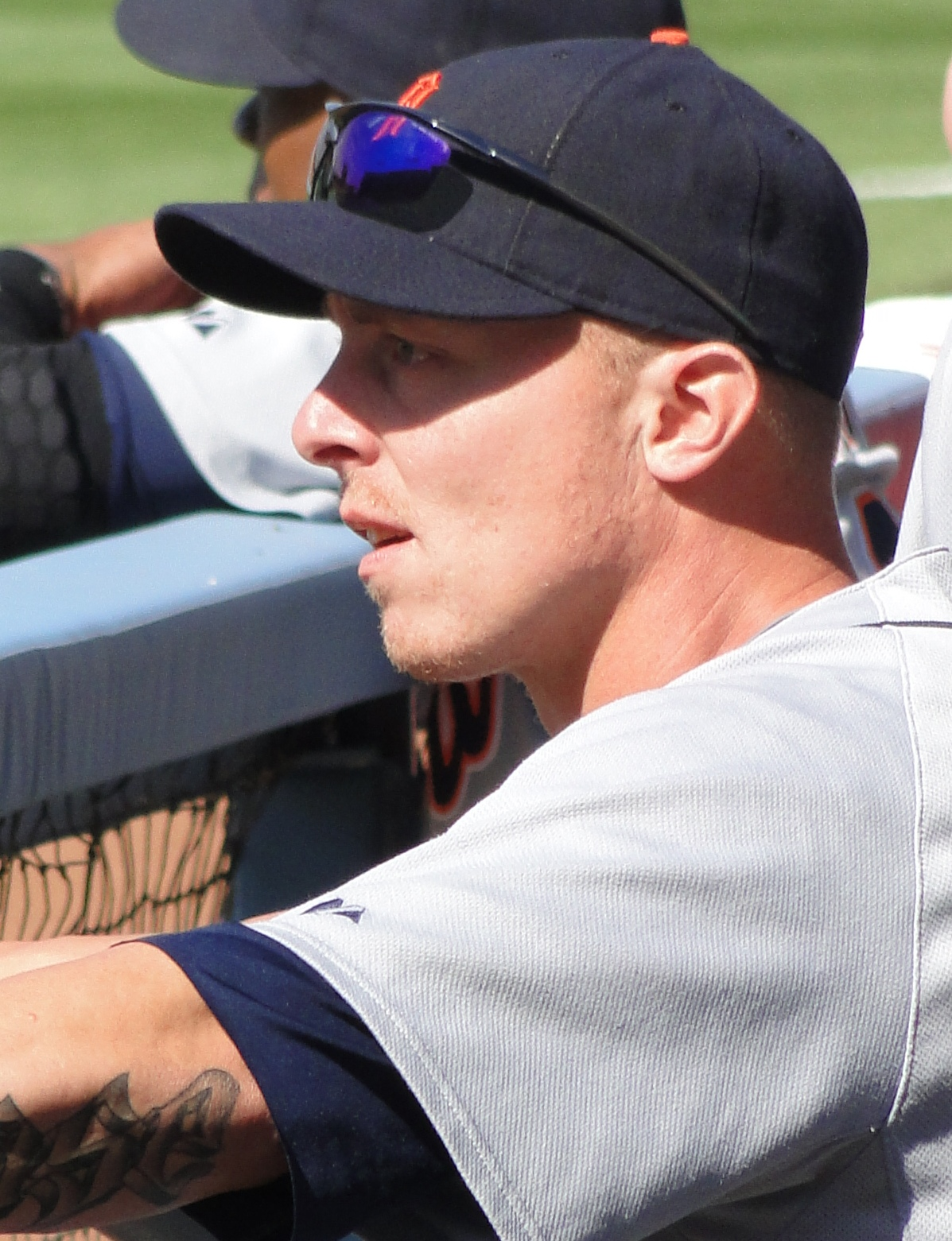 Description Brandon Inge at Dodger Stadium Date22 May 2010SourceI (Cbl62 (talk)) created this work entirely by myself.AuthorCbl62 (talk) 07:58, 23 May 2010 . . Cbl62 . . 1,197×1,561 (641 KB) Brandon Inge at Dodger Stadium